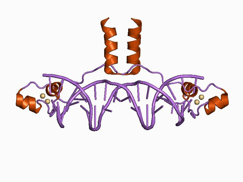 Cartoon representation of the molecular structure of protein registered with 1d66 code.